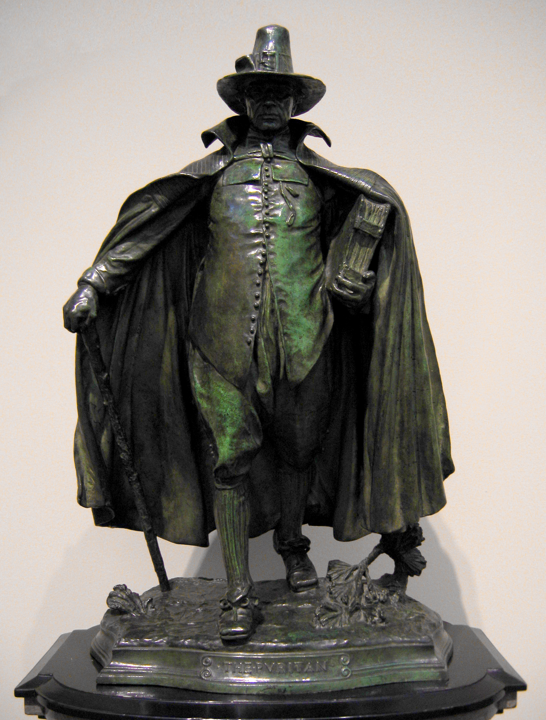 The Puritan, 1883-1886; this cast 1899 or after. Augustus Saint-Gaudens (1848 - 1907). Bronze, Metropolitan Museum of Art, New York City. Based on the large-scale Puritan monument completed by Saint-Gaudens in Springfield, Massachusetts in 1887.